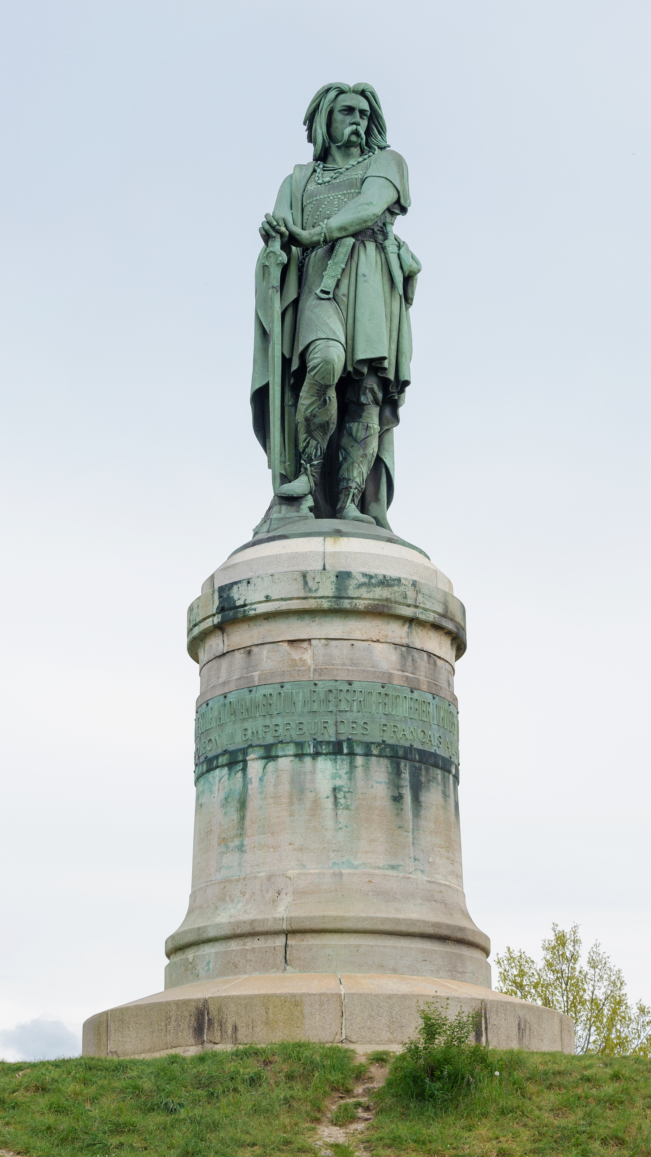 Vercingetorix, monumental statue by Aimé Millet in Alise-Sainte-Reine, Côte-d'Or department, Burgundy, France. .